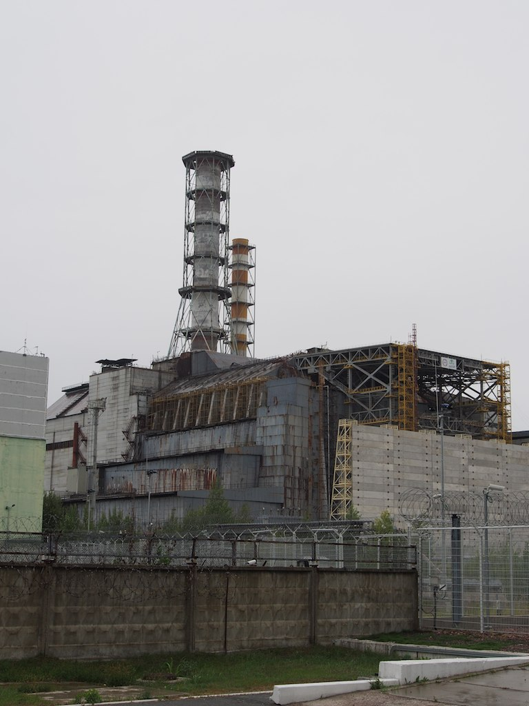 Chernobyl, Reactor 4 and the new confinement structure